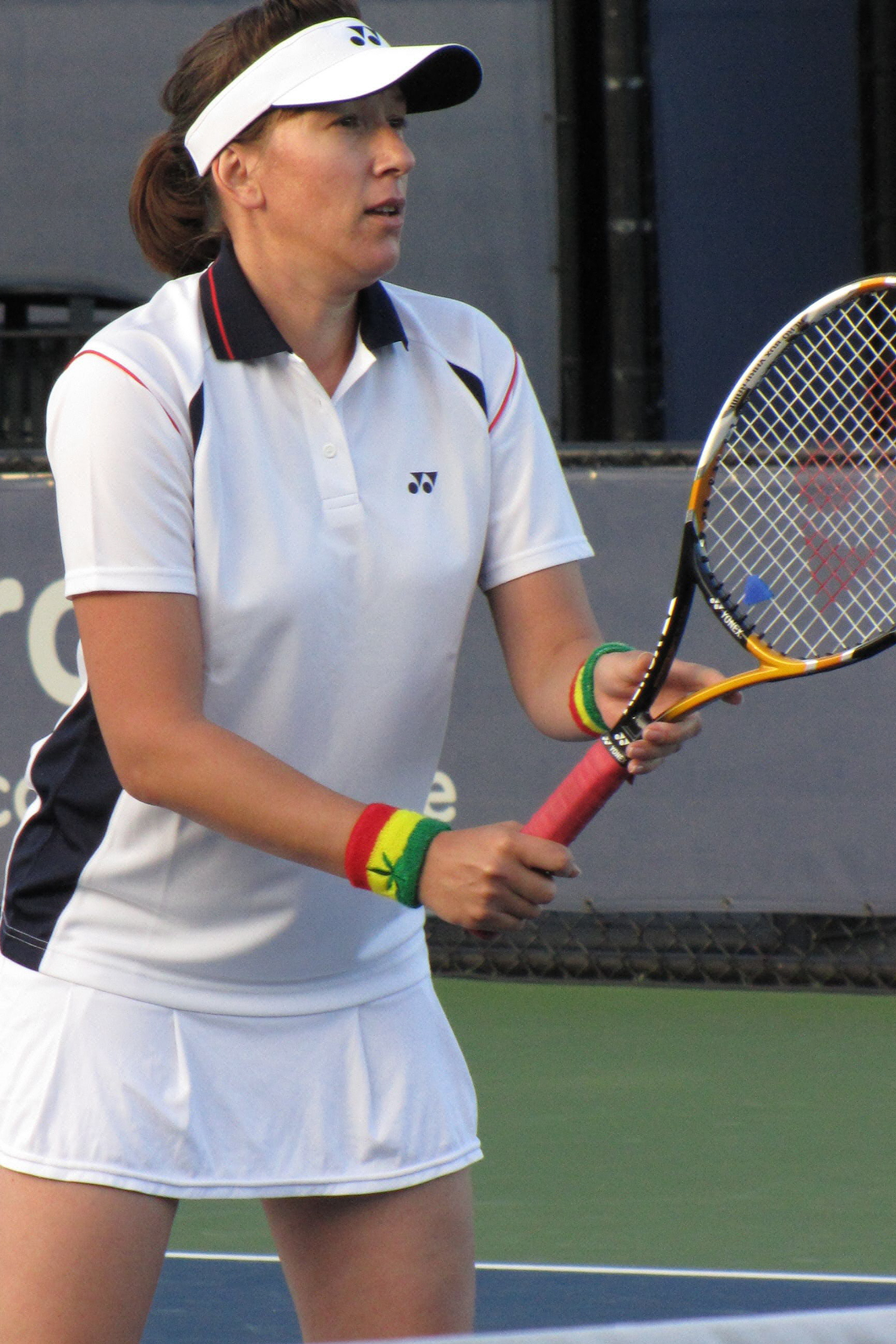 Natasha Zvereva, US Open Champions Invitational – 2010